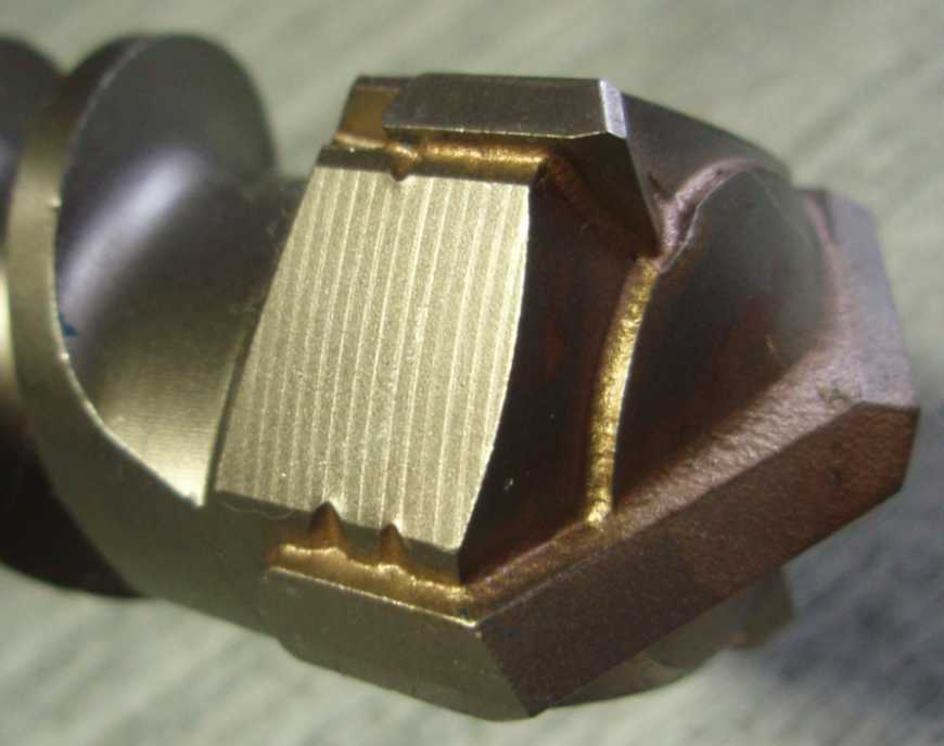 SDS max CT top diameter 40